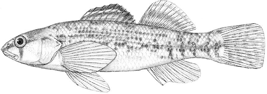 The orangethroat darter (Etheostoma spectabile)